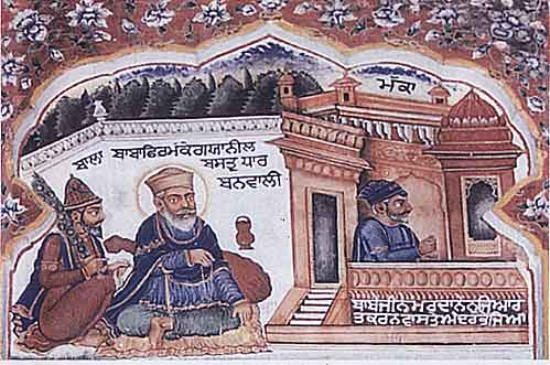 Sri Guru Nanak Dev Ji (centre) dressed in blue robes at Guruduara with Bhai Mardana (right) Ji and Bhai Bala Ji (left)